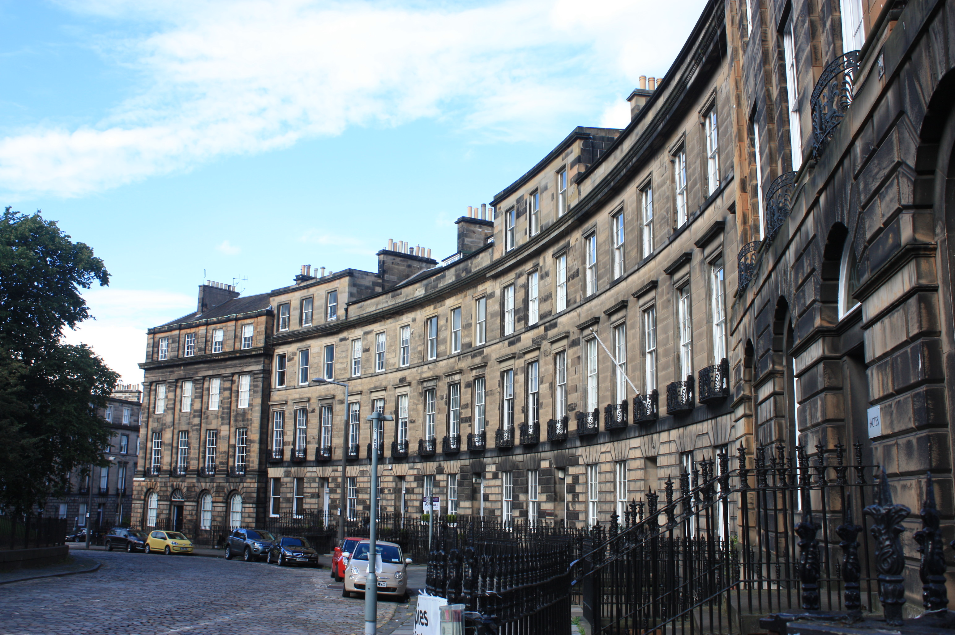 1 to 7 Randloph Crescent, Edinburgh